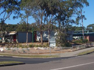 I took this photo I took this photo